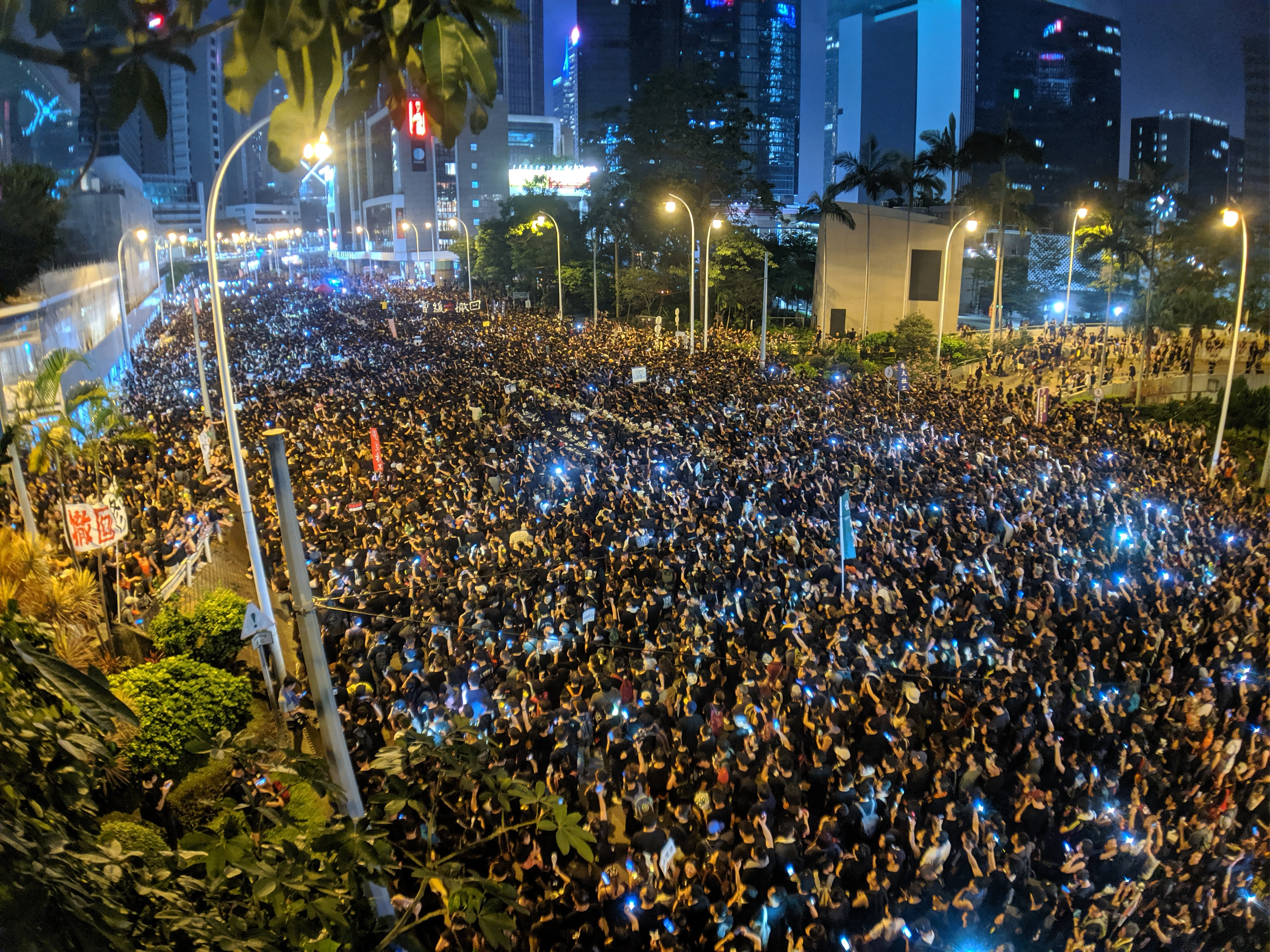 2019 Hong Kong anti-extradition law protest on 16 June, captured by Studio Incendo from Flickr.